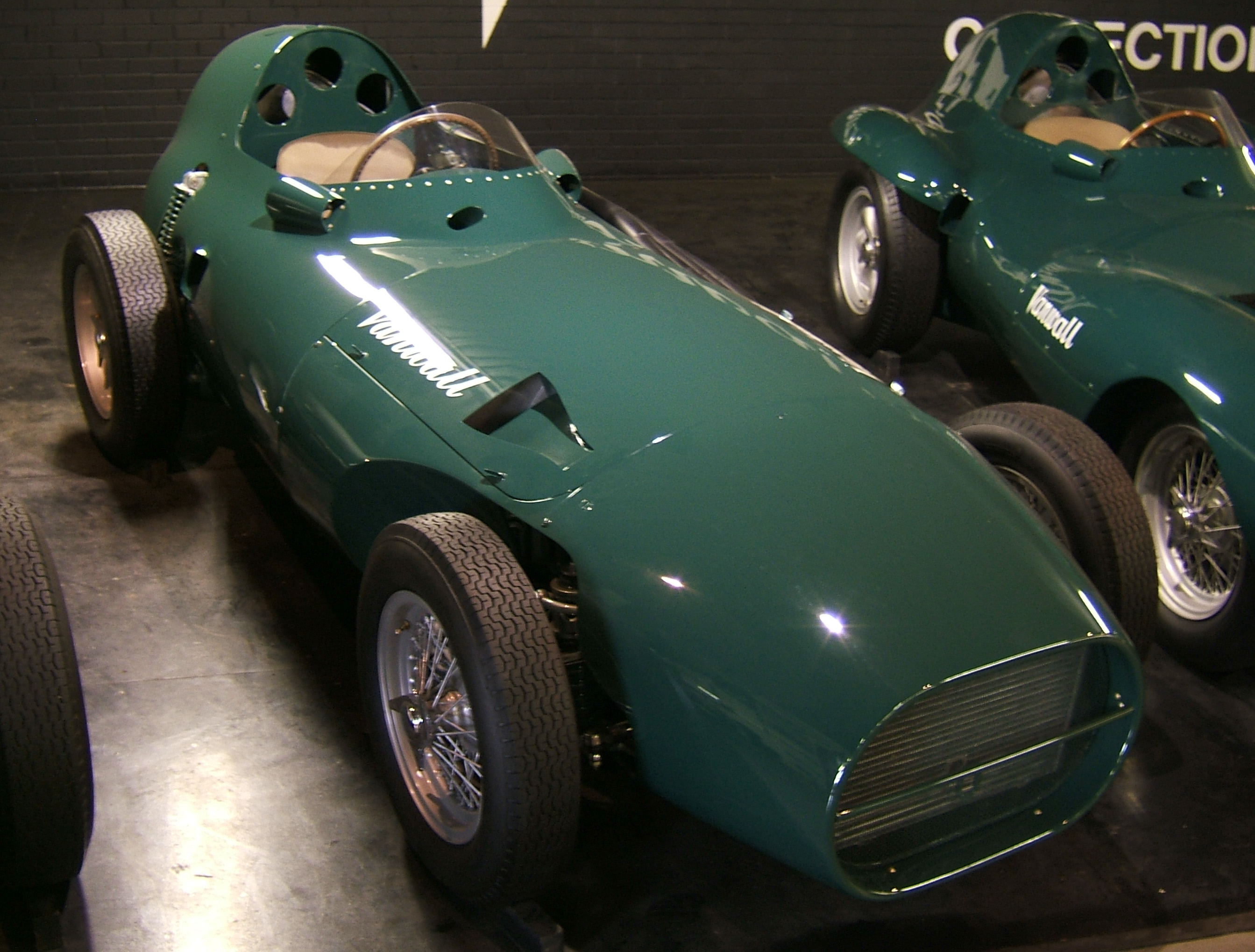 Vanwall VW7, with 1958 Monaco GP bodywork incorporating shortened nose and tail sections. In the Donington Grand Prix Collection museum, Leics., UK.